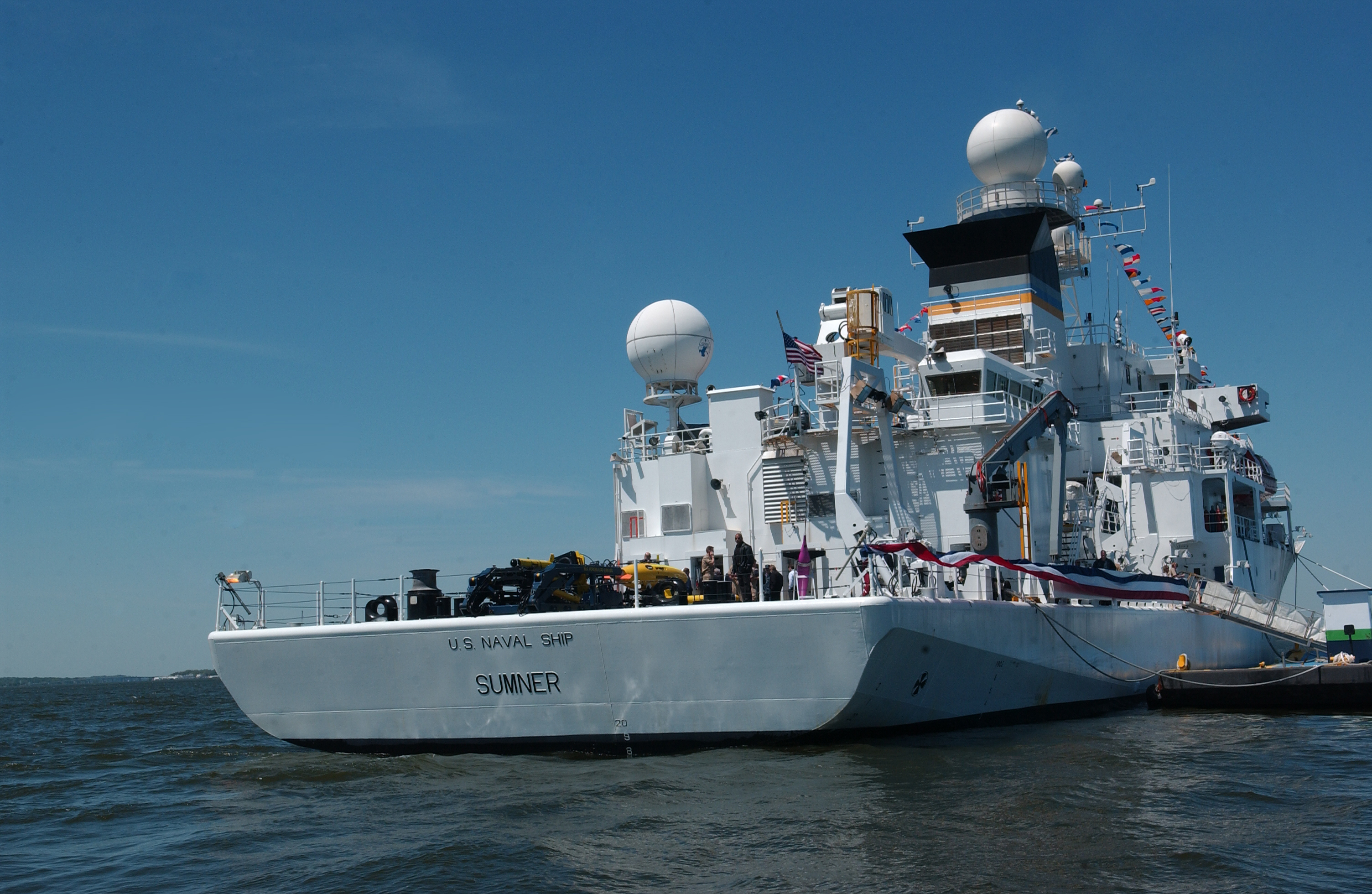 ANNAPOLIS, Md. (April 28, 2010) The Military Sealift Command oceanographic survey ship USNS Sumner (T-AGS 61) is moored near the U.S. Naval Academy. The ship is conducting tours to show midshipmen and school faculty the various tools used in oceanographic missions. (U.S. Navy photo by Mass Communication Specialist 3rd Class Patrick Green/Released)